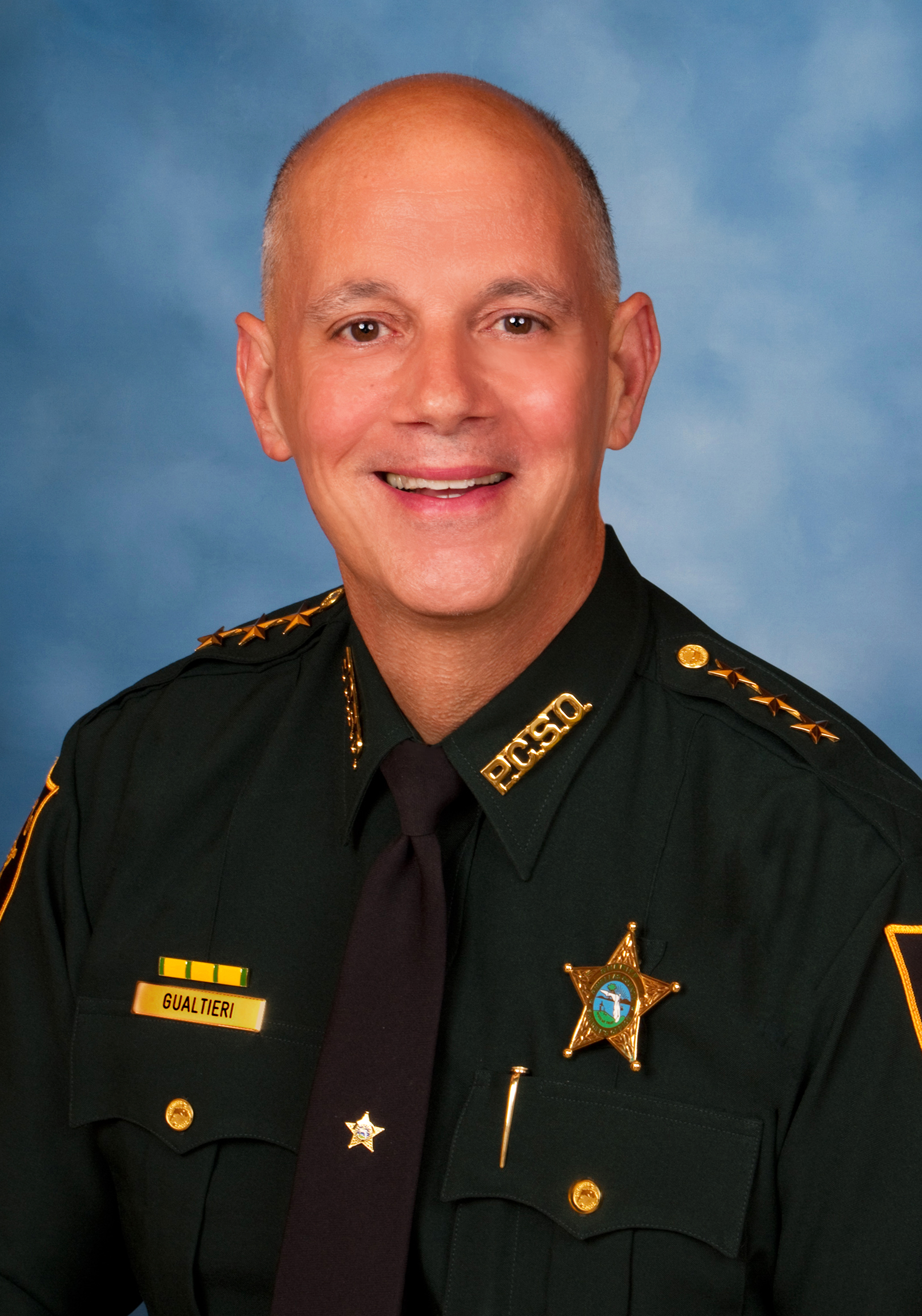 Sheriff Bob Gualtieri, PCSO